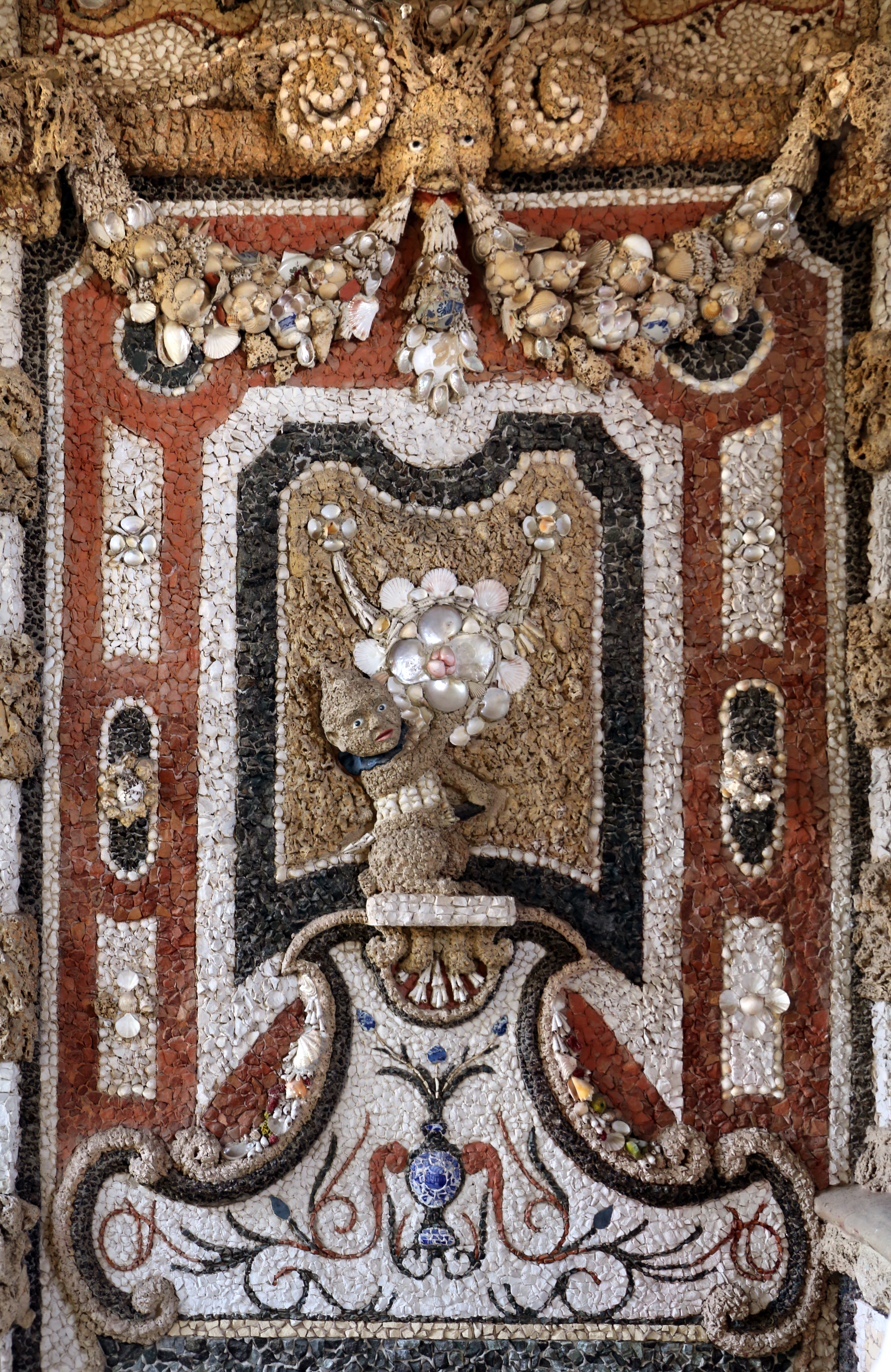 Ninfeo Niccolini